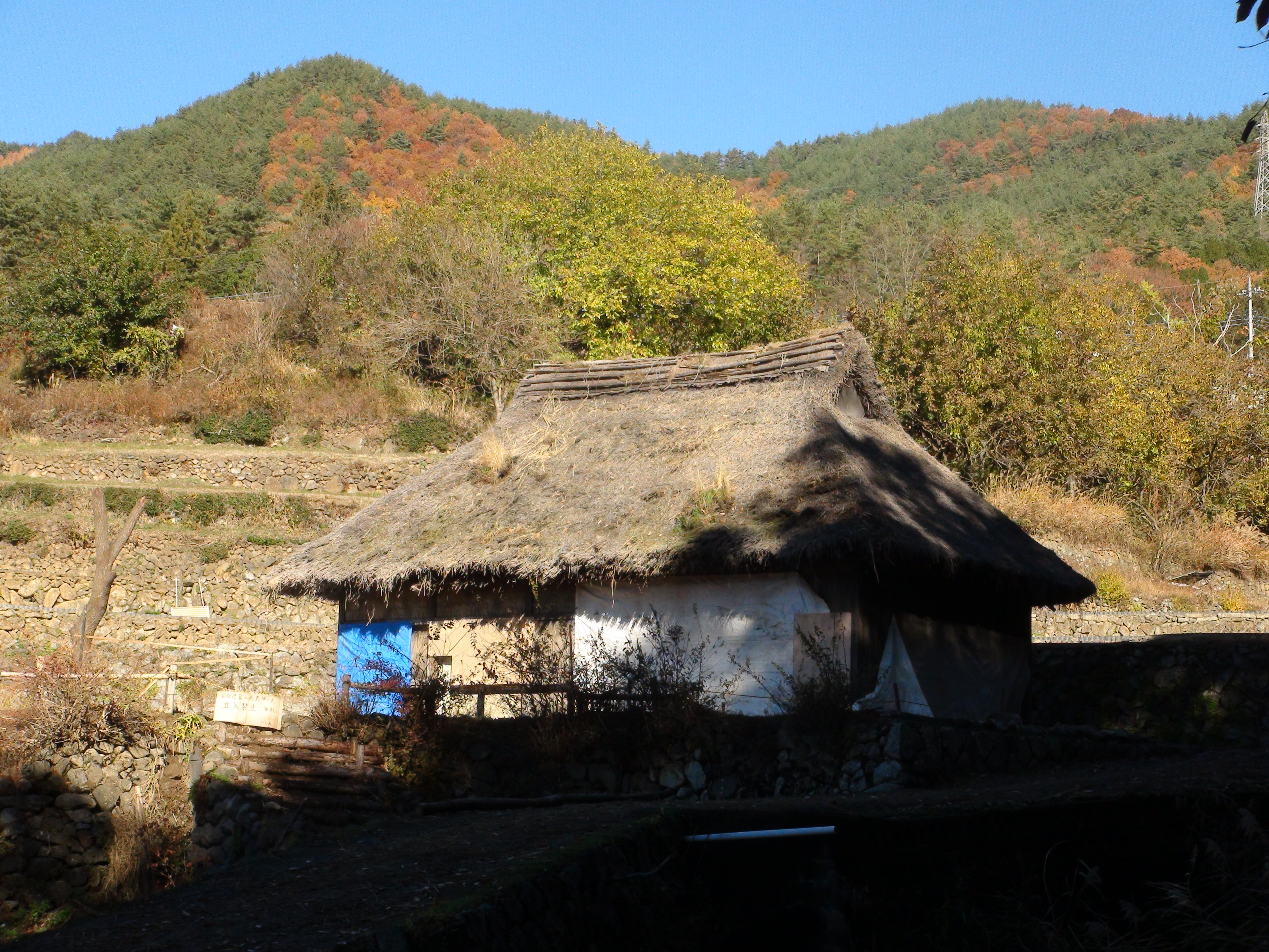 Location shooting house in Kofu "Hanako and Anne" NHK drama. Nov. 2013